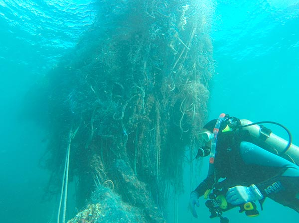 This monster net found at Pearl and Hermes in 2014 was more than 28 feet long, seven feet wide, 16 feet deep, and weighed 11.5 tons.